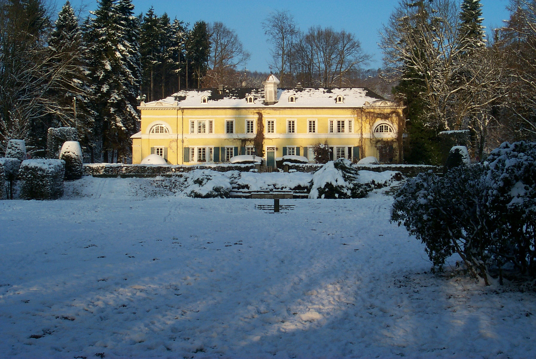 Trier-Pallien Dragon house